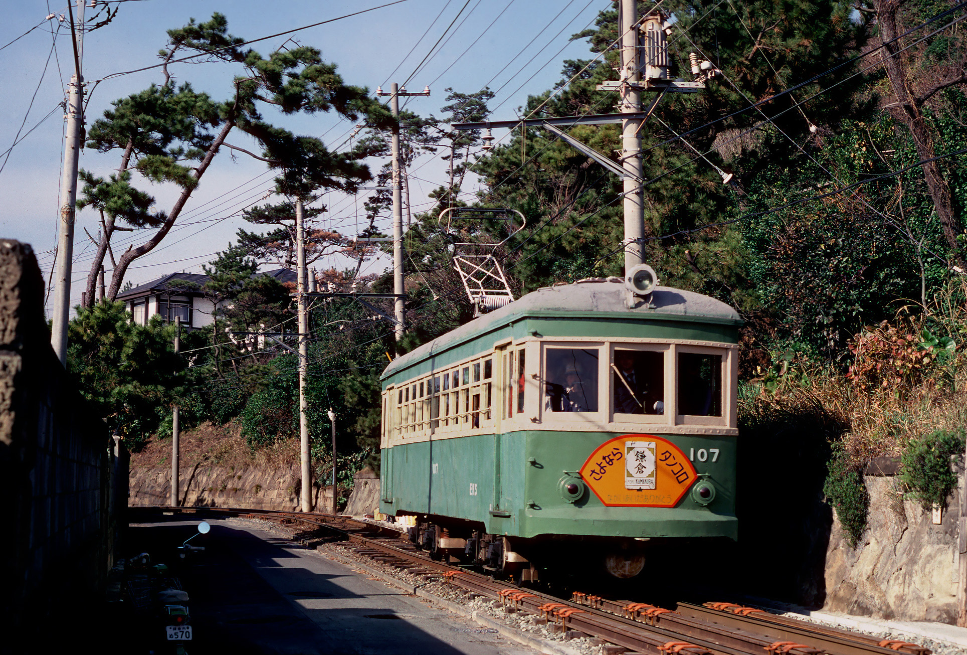 Enoshima Kamakura Kanko 100 type EMU called as Tankoro running between Shichirigahama and Inamuragasaki.